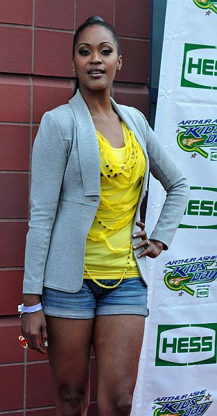 Singer Shontelle attends 15th Annual Arthur Ashe Kids Day on August 28, 2010 at Billie Jean King Stadium in Queens, New York